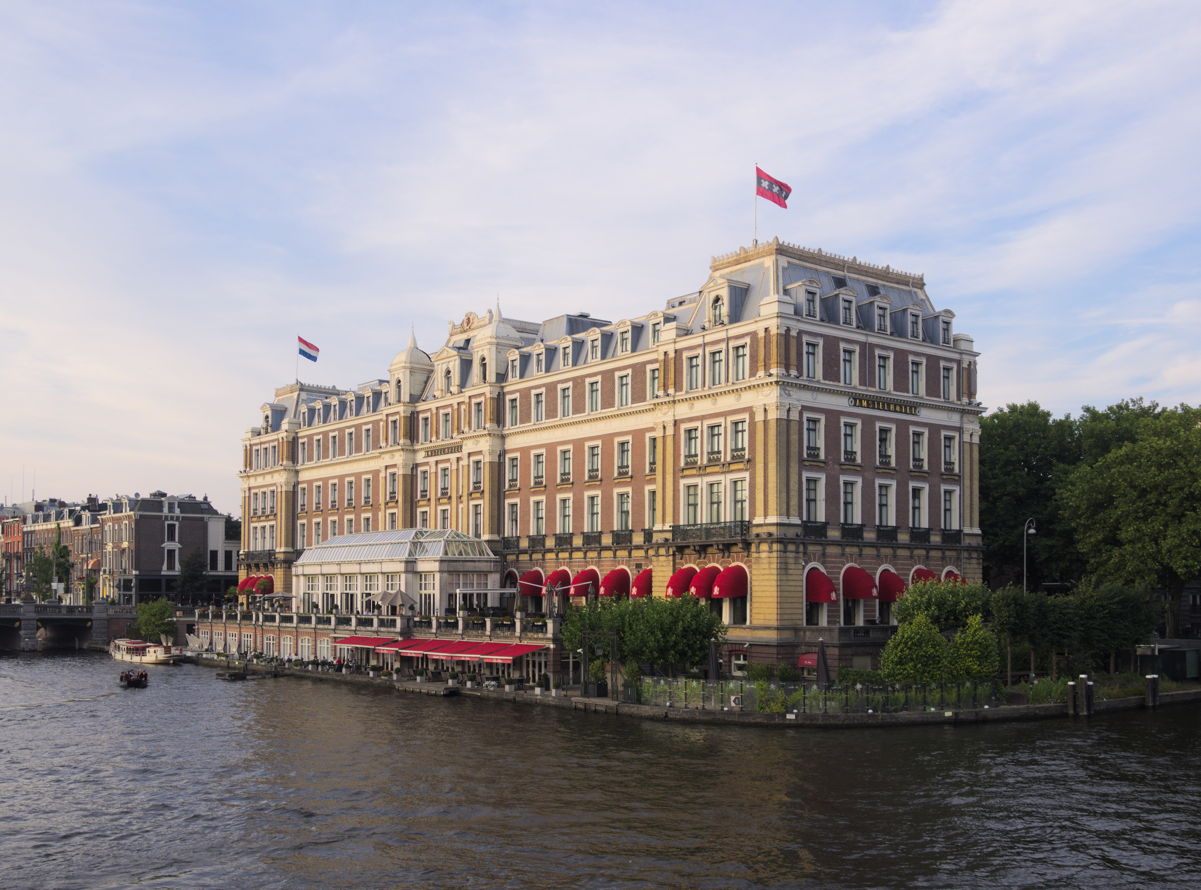 View of Amstel Hotel from Torontobrug.